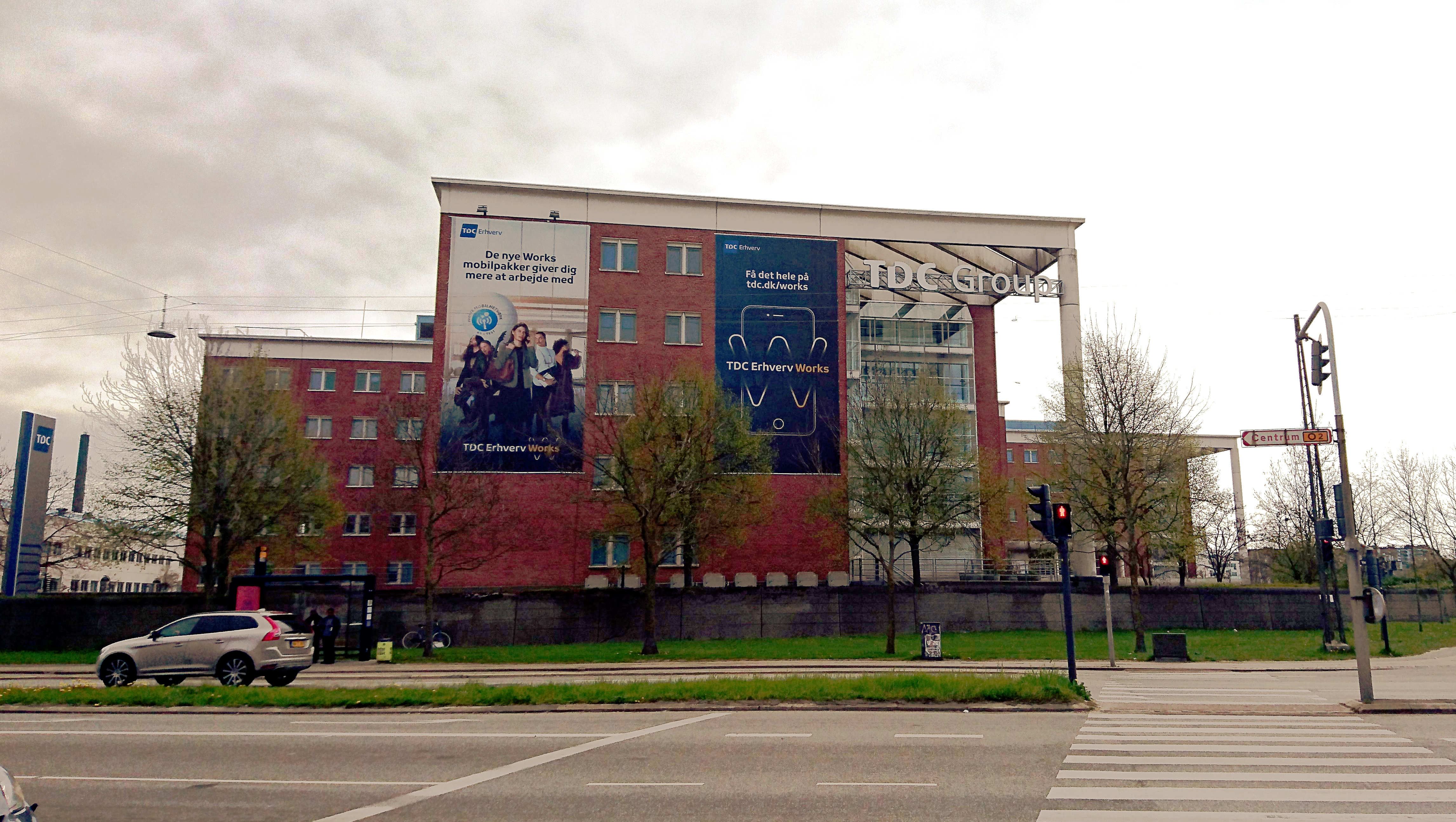 Headquarters of TDC Group at Sydhavnen, Copenhagen, Denmark in May 2017.